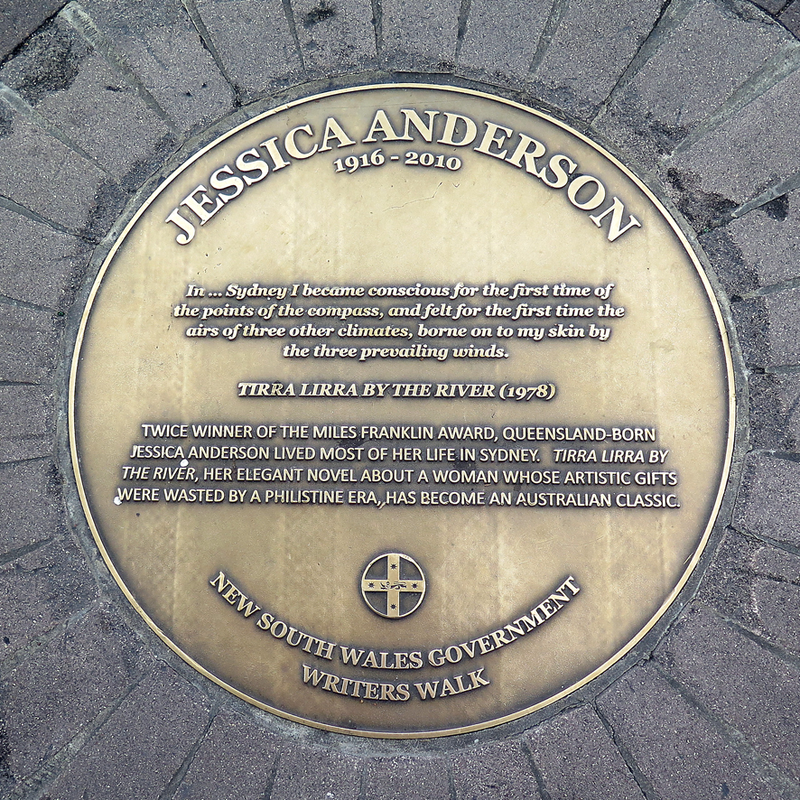 A plaque in the Sydney Writers Walk series at Circular Quay